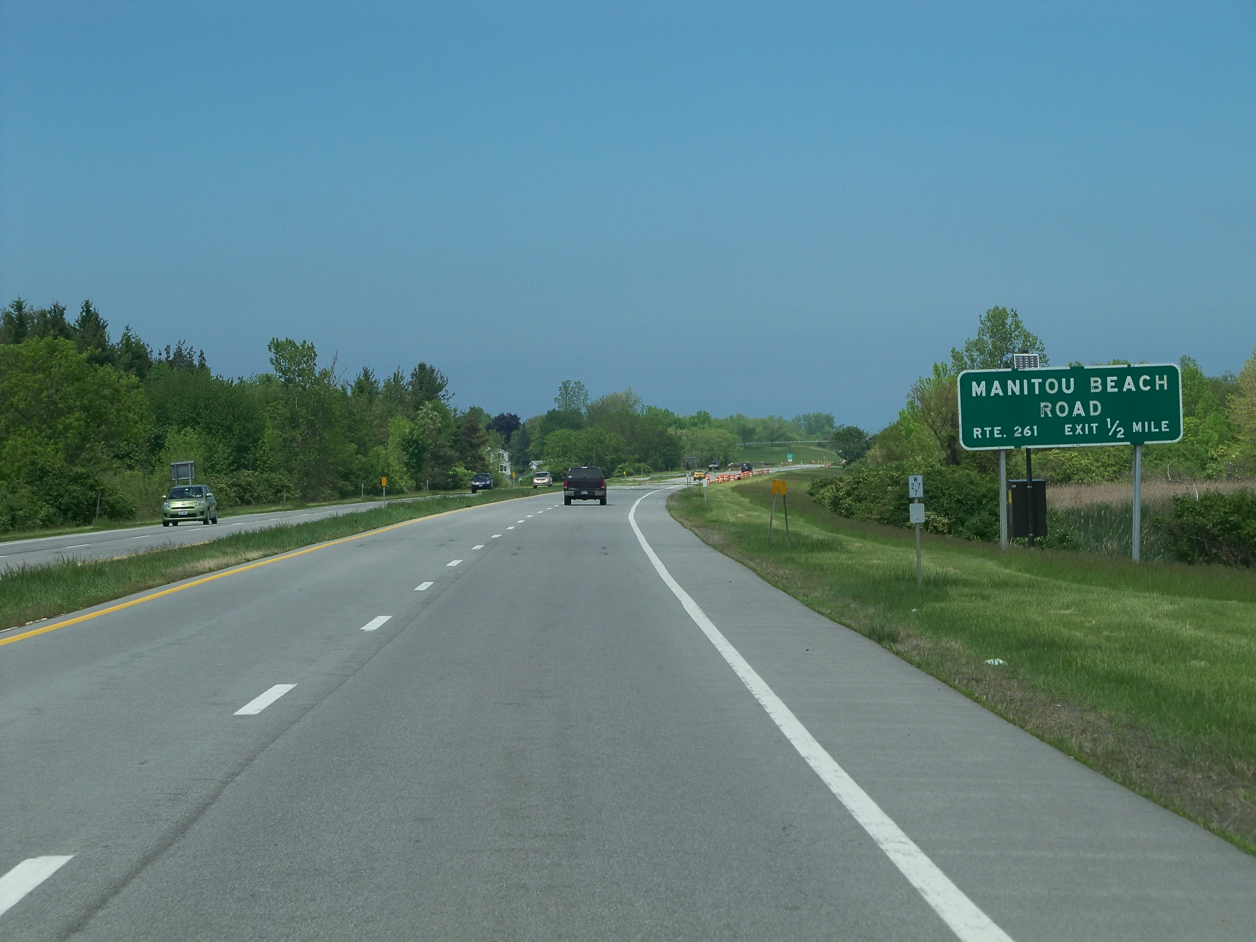 An old, text-only "big green sign" for New York State Route 261's exit on the Lake Ontario State Parkway in Greece.